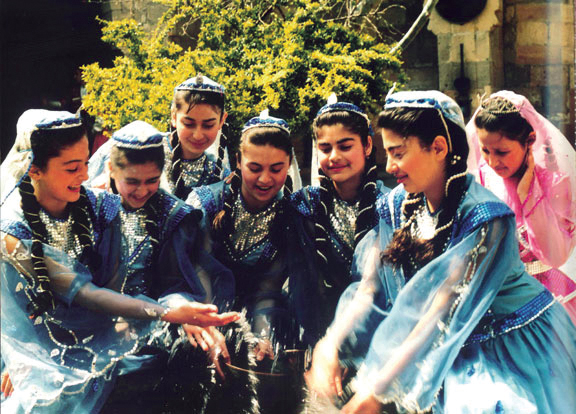 Azerbaijani folk dancers.